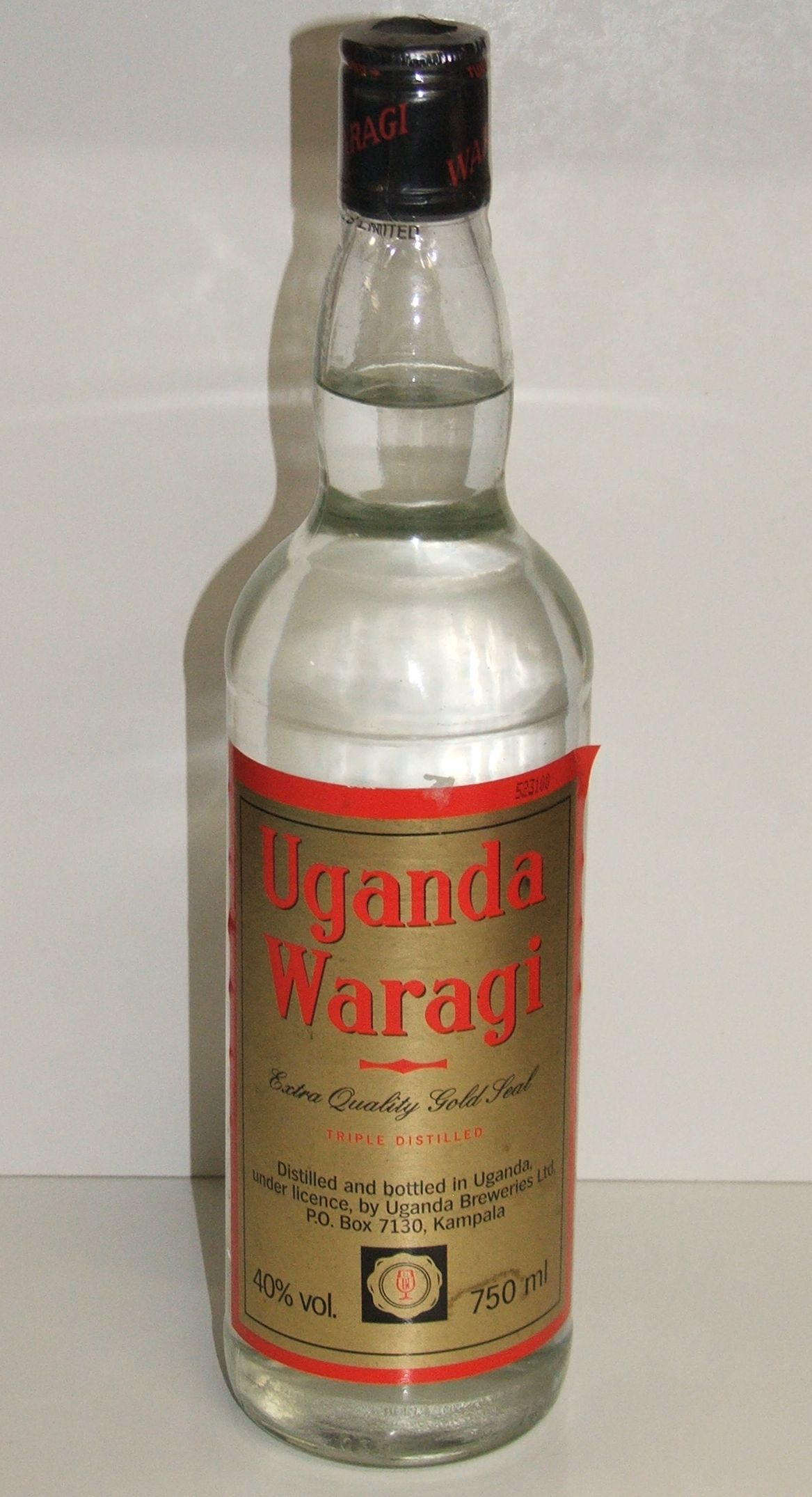 Self-made image